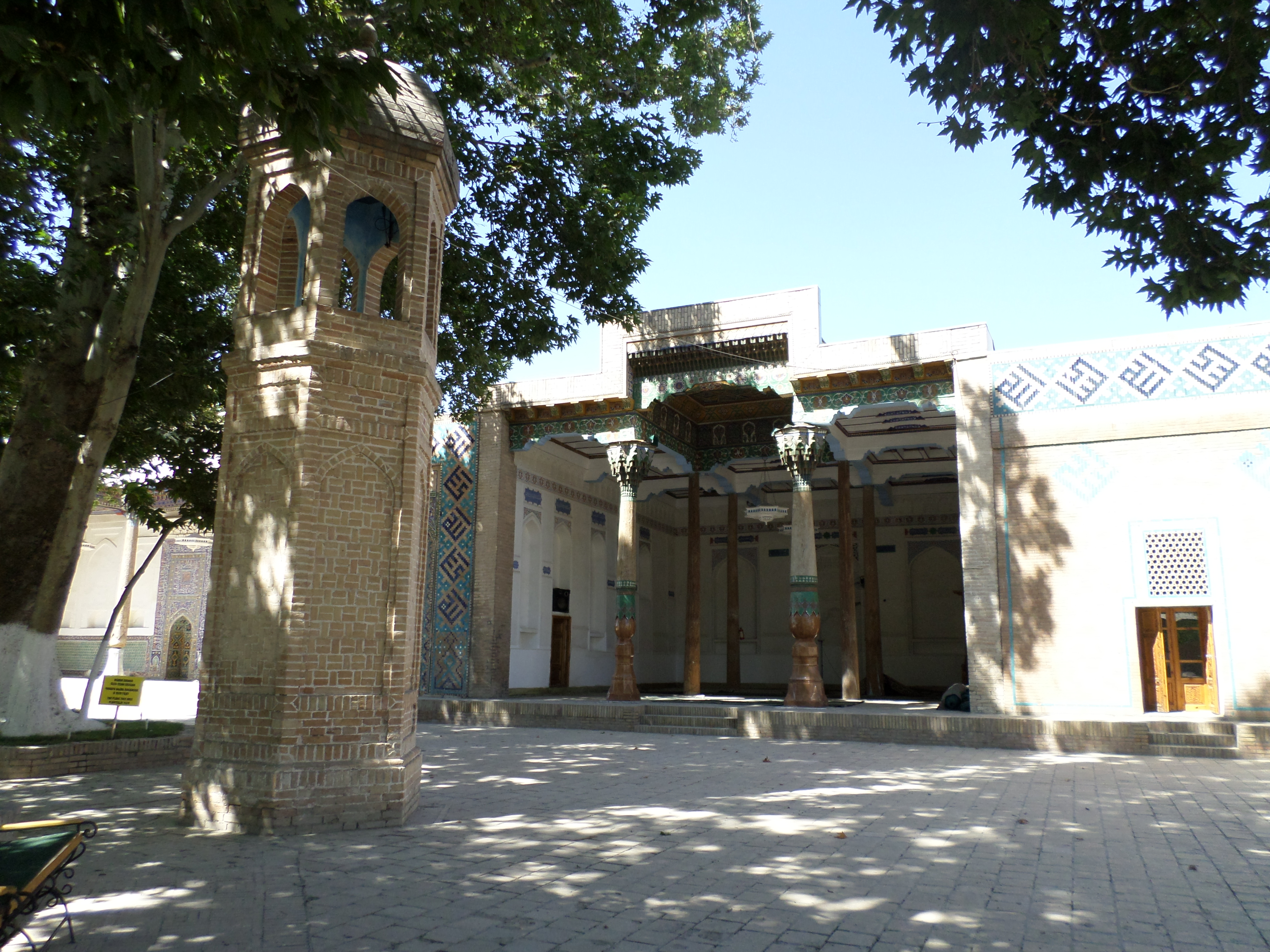 Mosque Khoja Ahrar